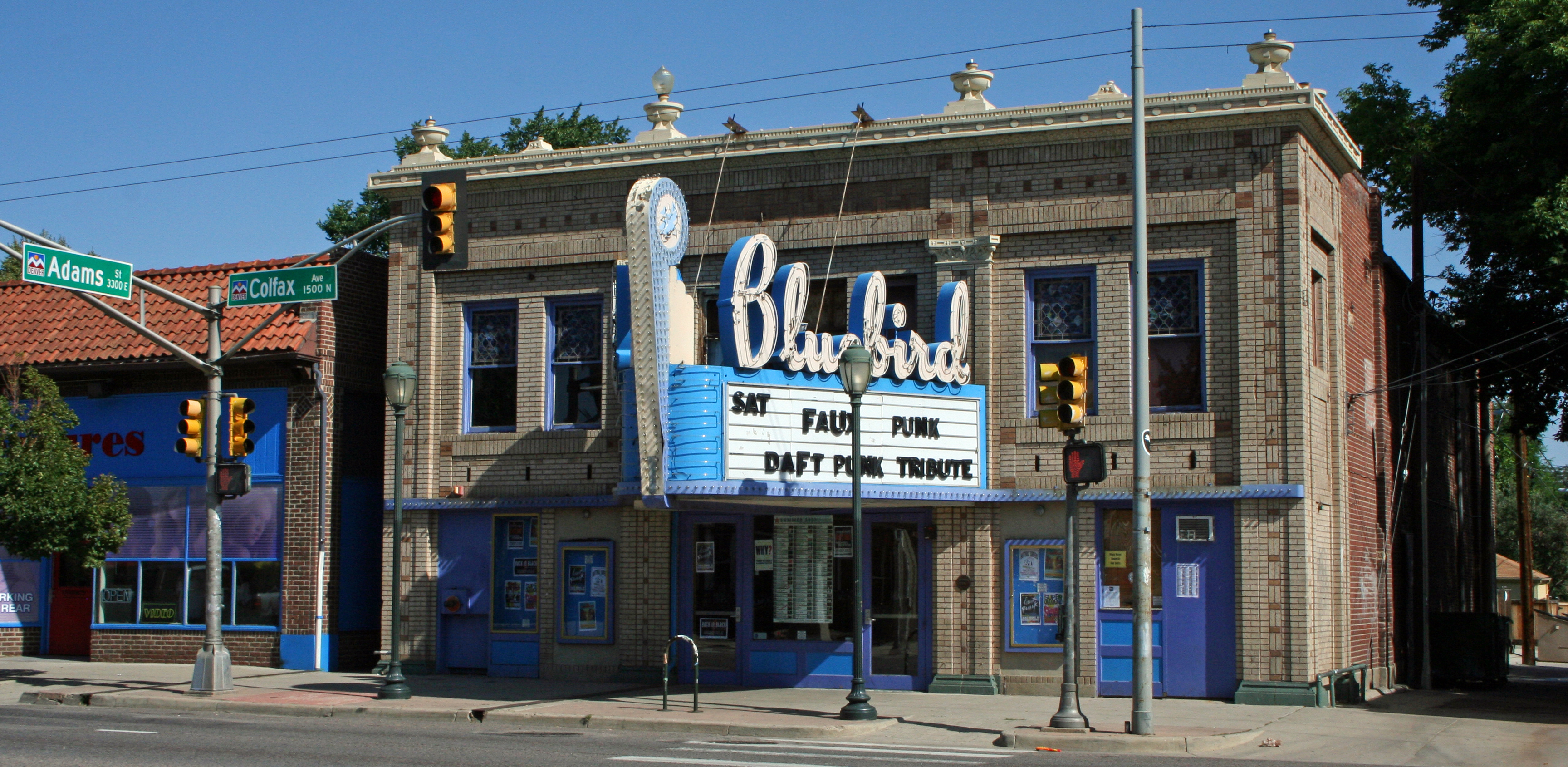 The Bluebird Theater, located at 3315-3317 East Colfax Avenue in Denver, Colorado